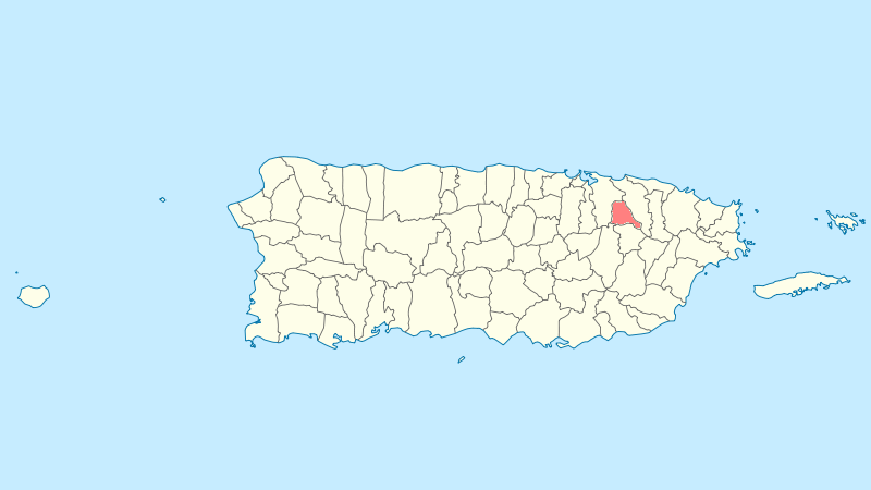 Municipal locator of Puerto Rico